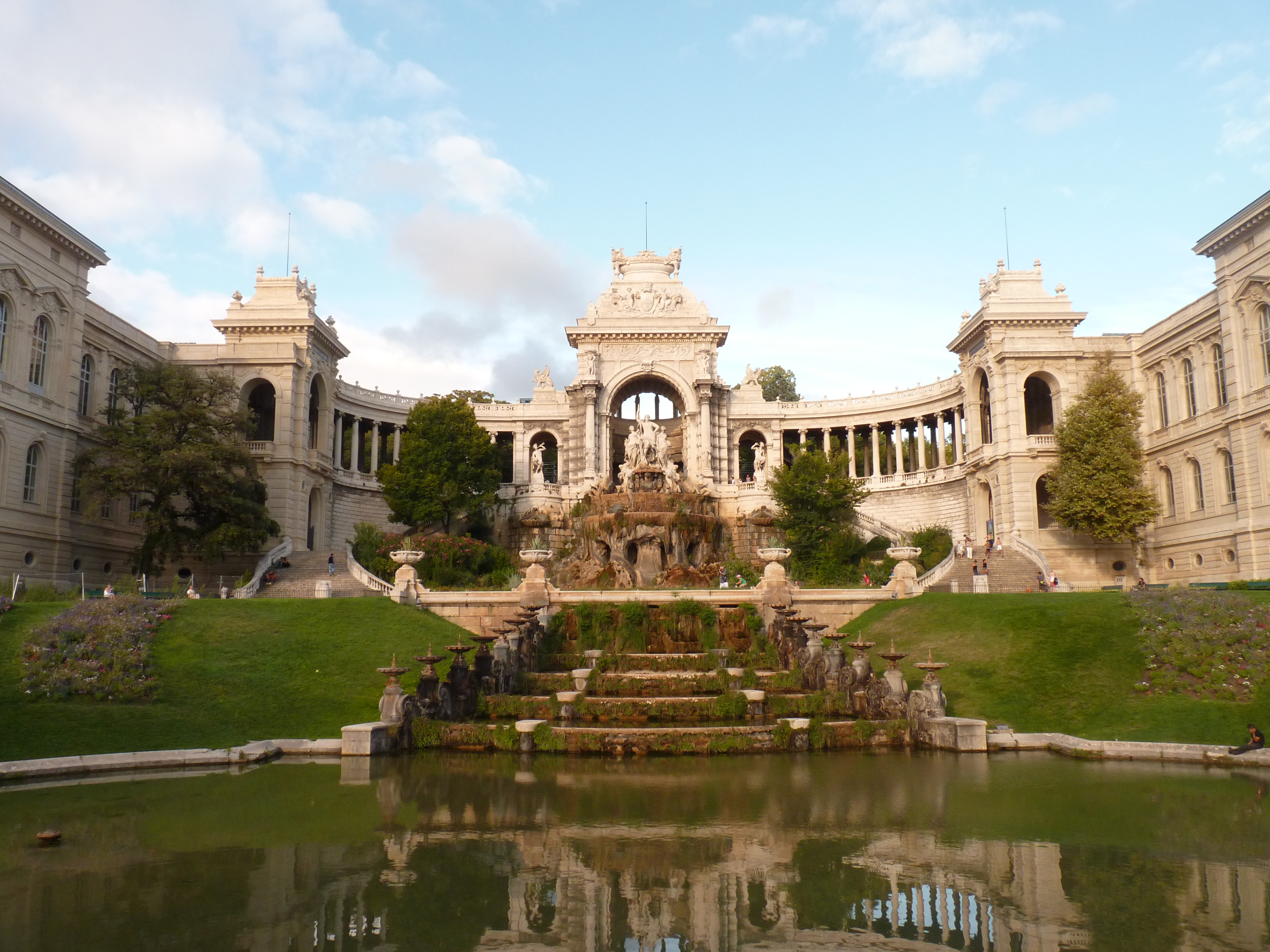 Main façade of the Palais Longchamp